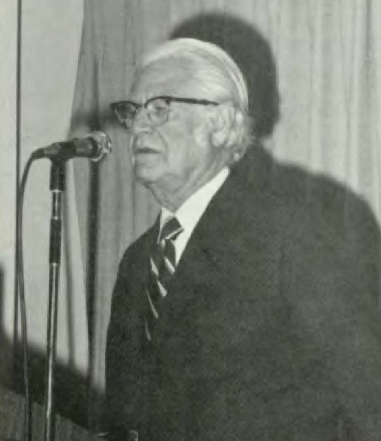 Maxwell Maltz speaking at the University of San Diego